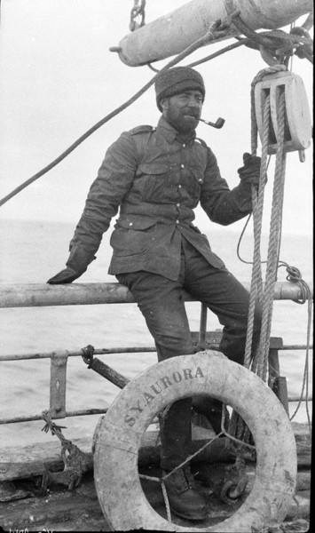 Morton Moyes on the steam yacht/icebreaker Aurora during the Australasian Antarctic Expedition in 1911